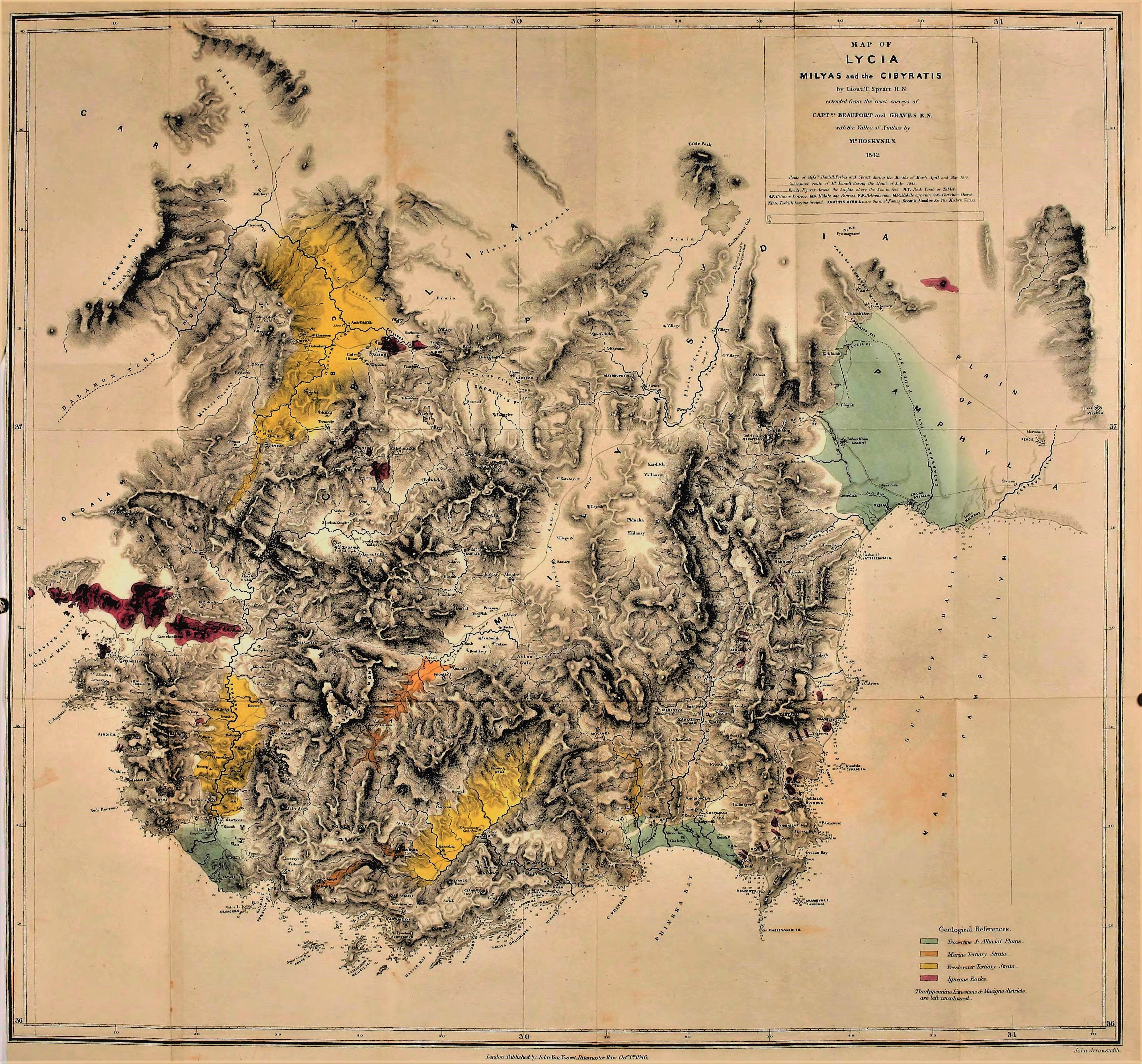 Showing the routes taken by T.A.B. Spratt, the naturalist Professor Edward Forbes and the Reverend E.T. Daniell during their exploration of the region in 1842.